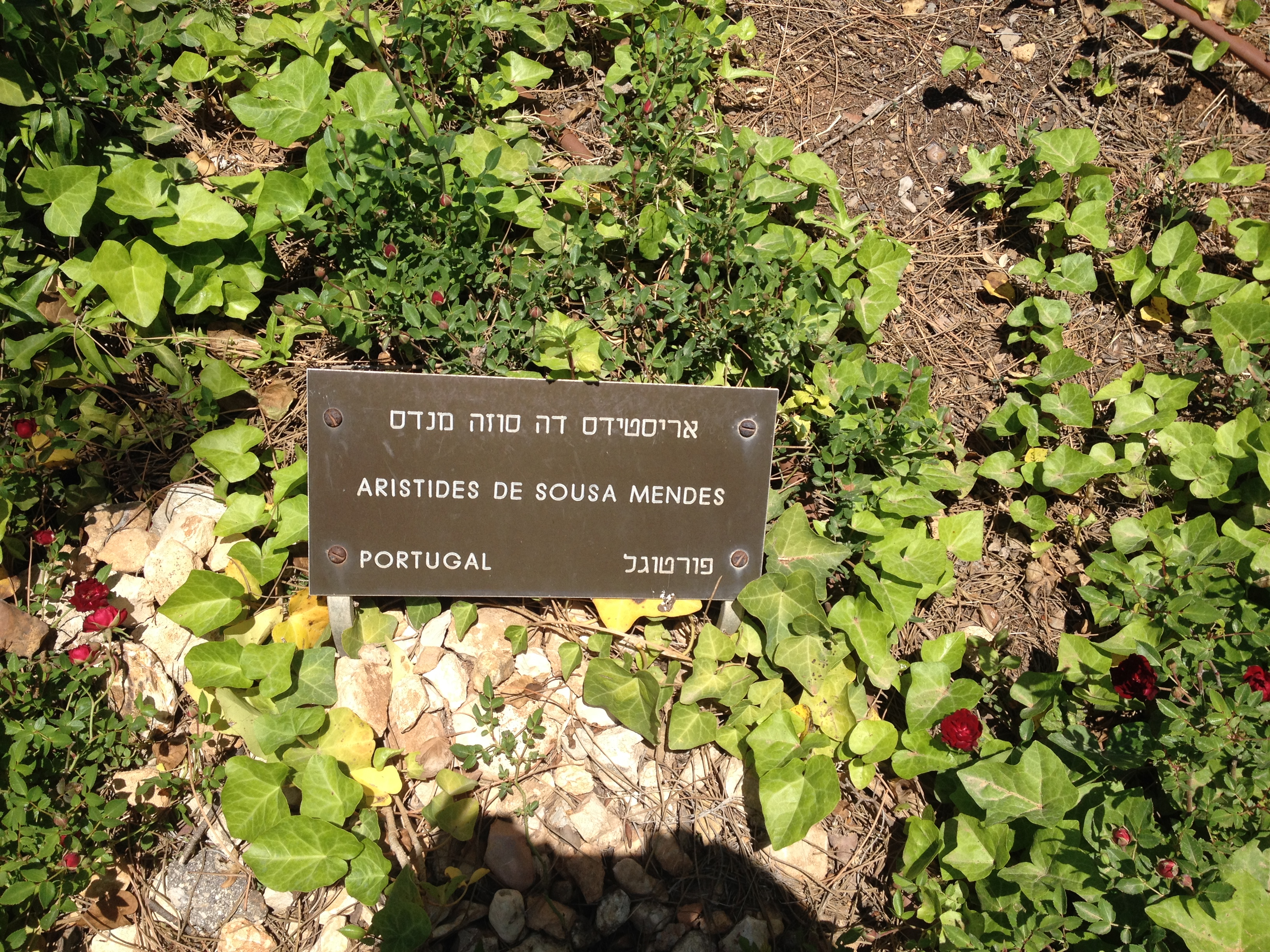 Tribute to Aristides de Sousa Mendes (Righteous Among the Nations) in Jerusalem's Yad Vashem